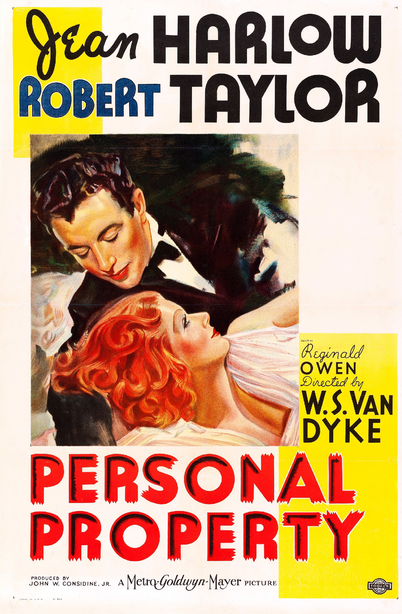 Poster for the 1937 film Personal Property.